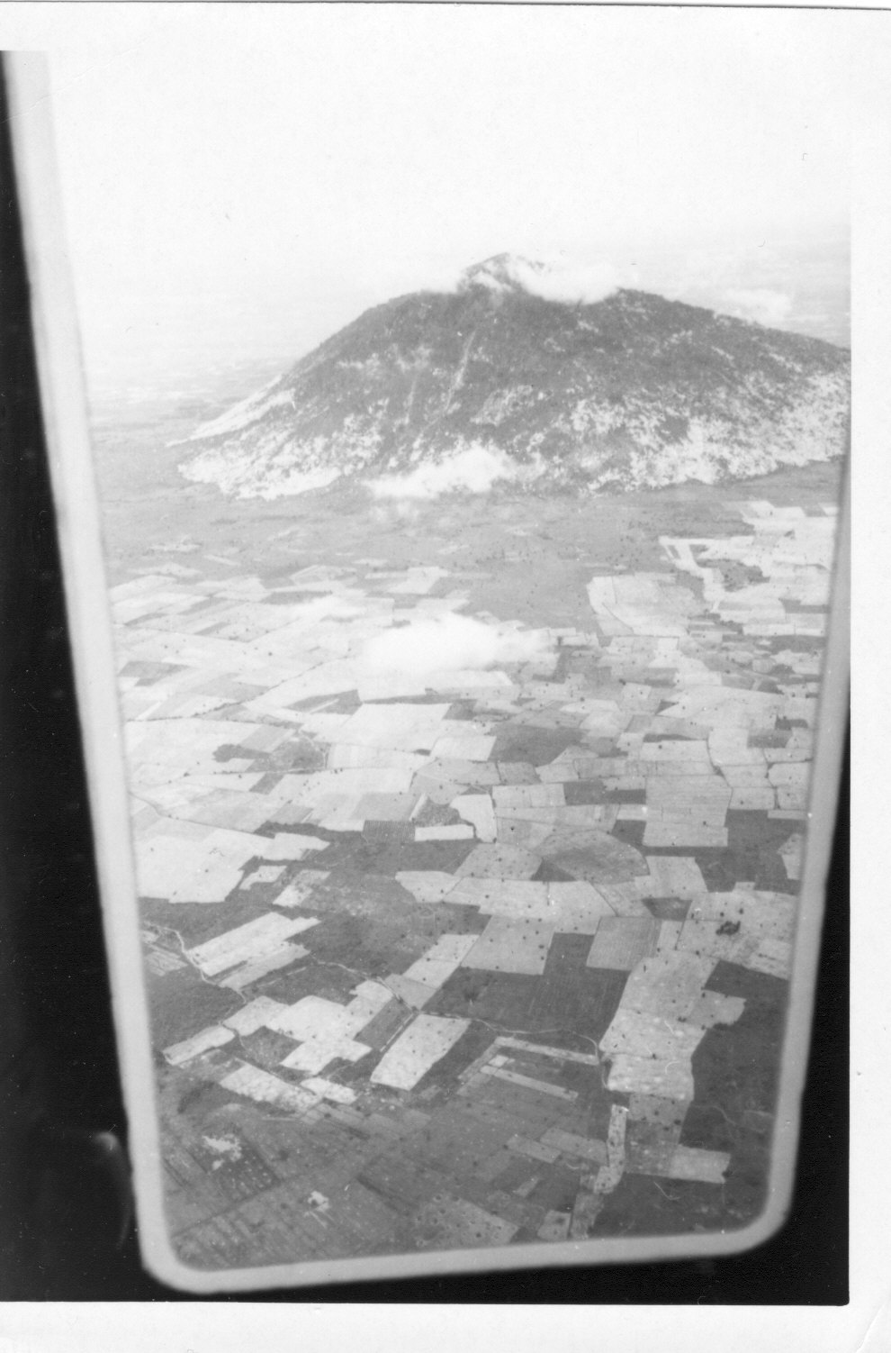 Nui Ba Den, Black Virgin Mountain, aerial view, 1971